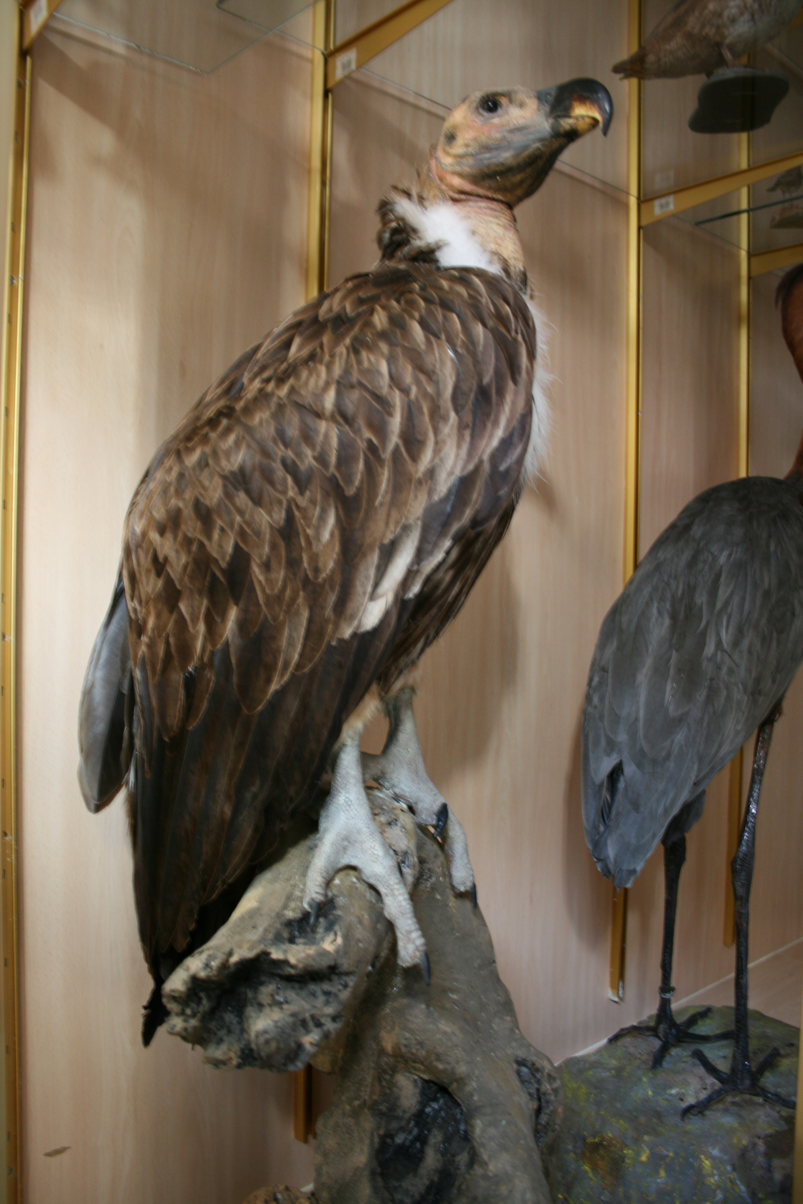 Lapped faced vulture taxidermy